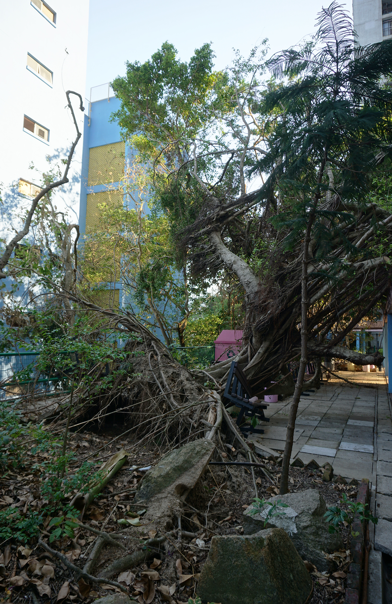 Sui Wo Court in Fo Tan, Hong Kong.